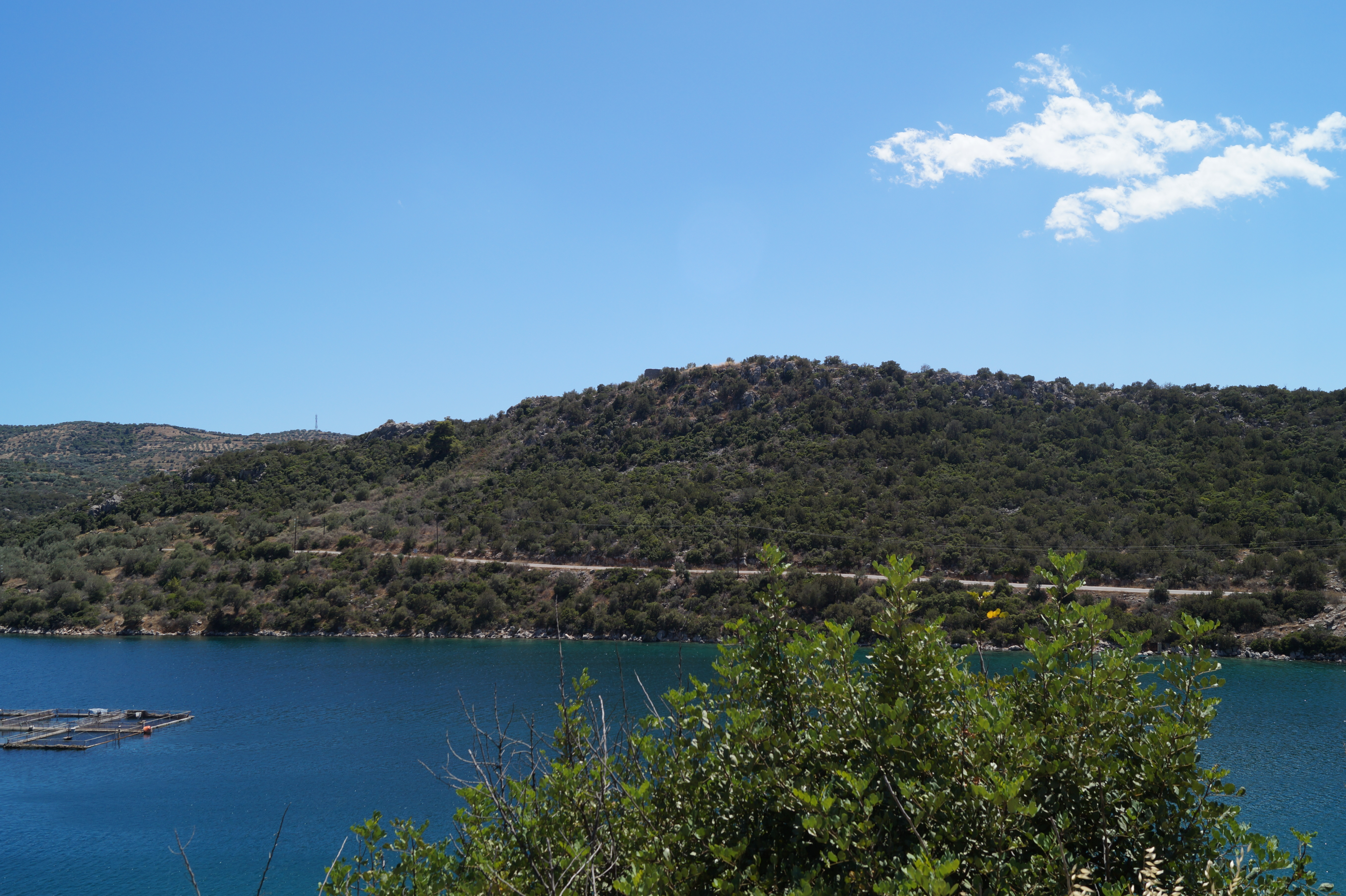 Methana, Greece: Isthmus of Methana, Castle of Favieros on summit.